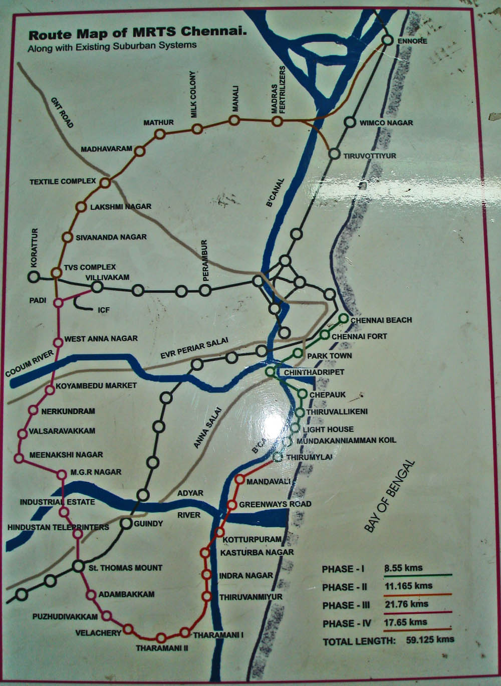 Proposed route of the Chennai MRTS.